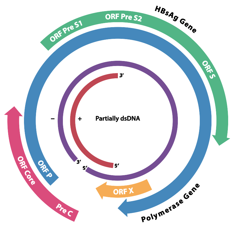 A diagram of the genome organisation of Hepatitis B virus. ORF stands for Open Reading Frame, i.e. a gene. The genes overlap. Created by User:GrahamColm